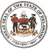 The Delaware state seal.